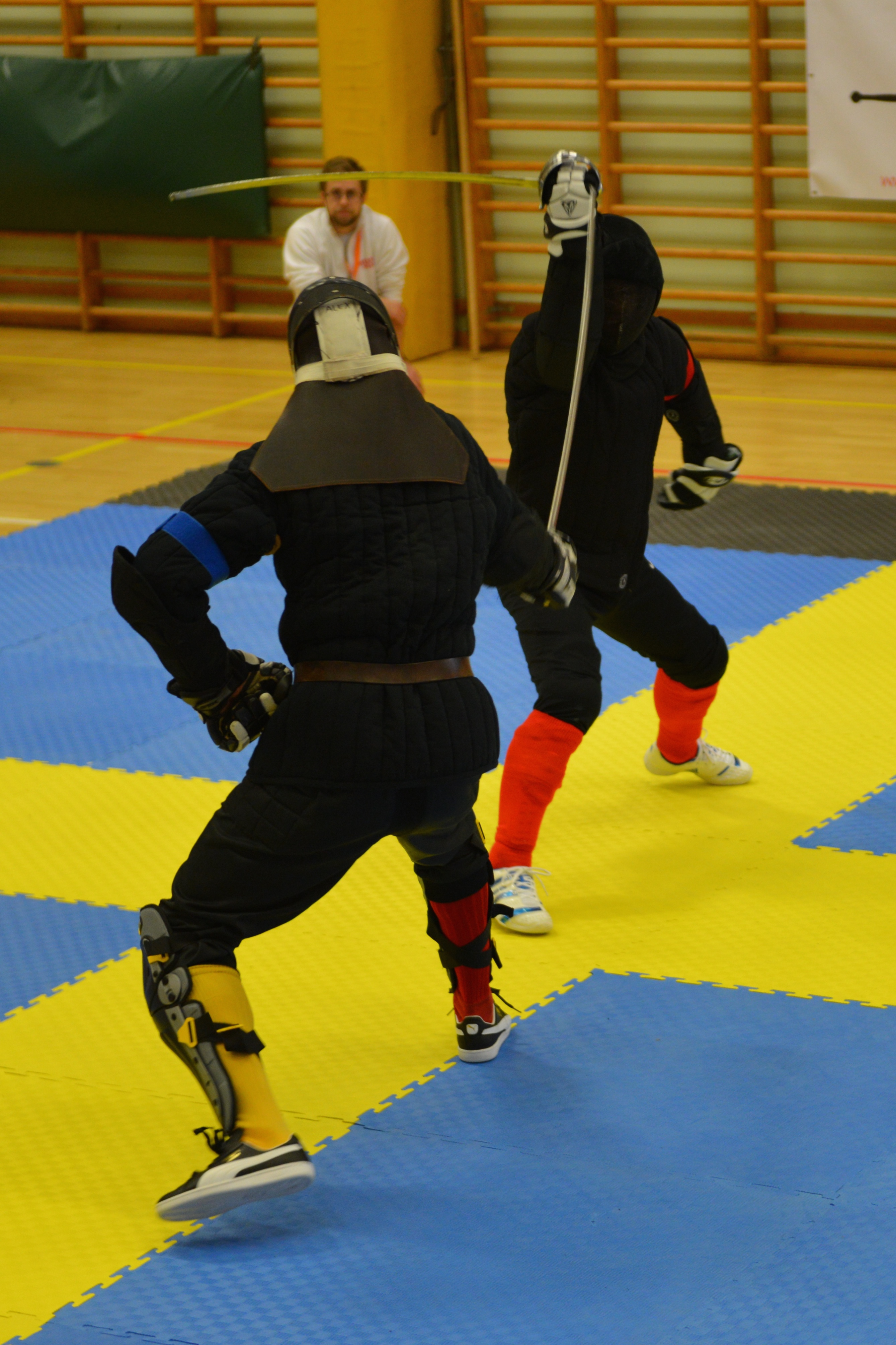 Image from Örebro Open 2014 hema tournament in Kristinehamn, Sweden.